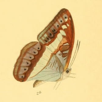 Sumalia daraxa